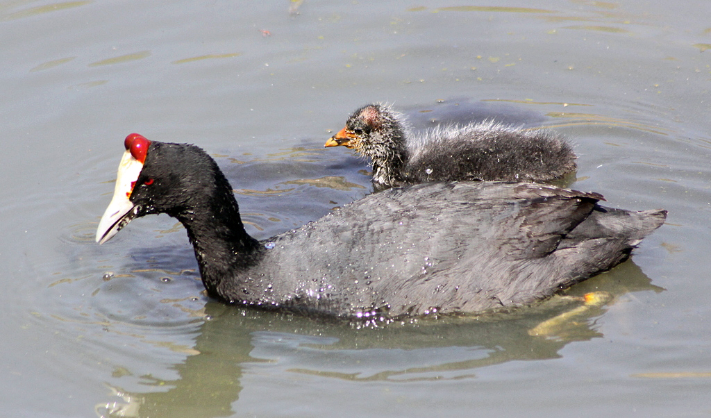 Red-knobbed Coots - adult and chick.